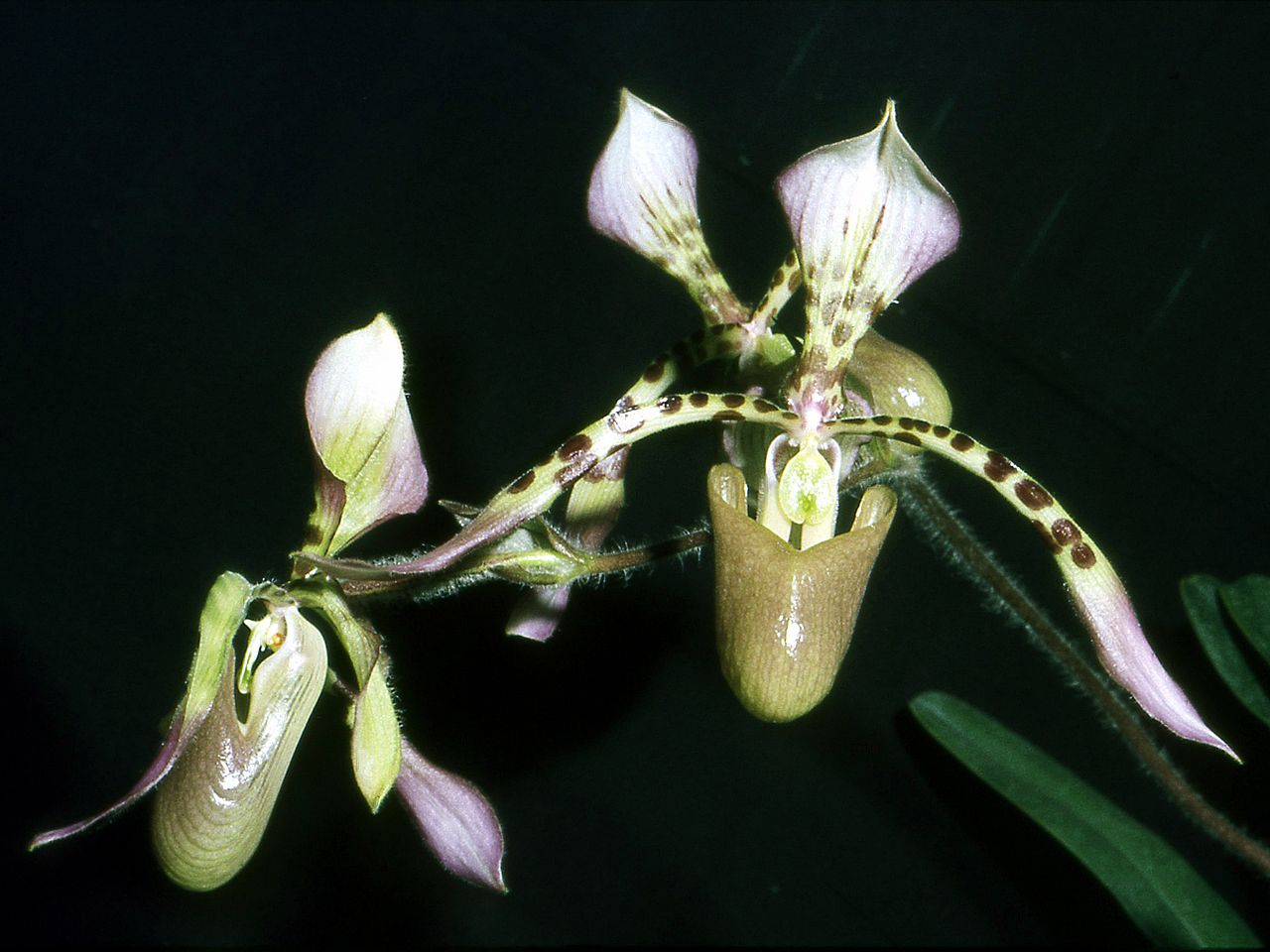 Paphiopedilum haynaldianum - flower